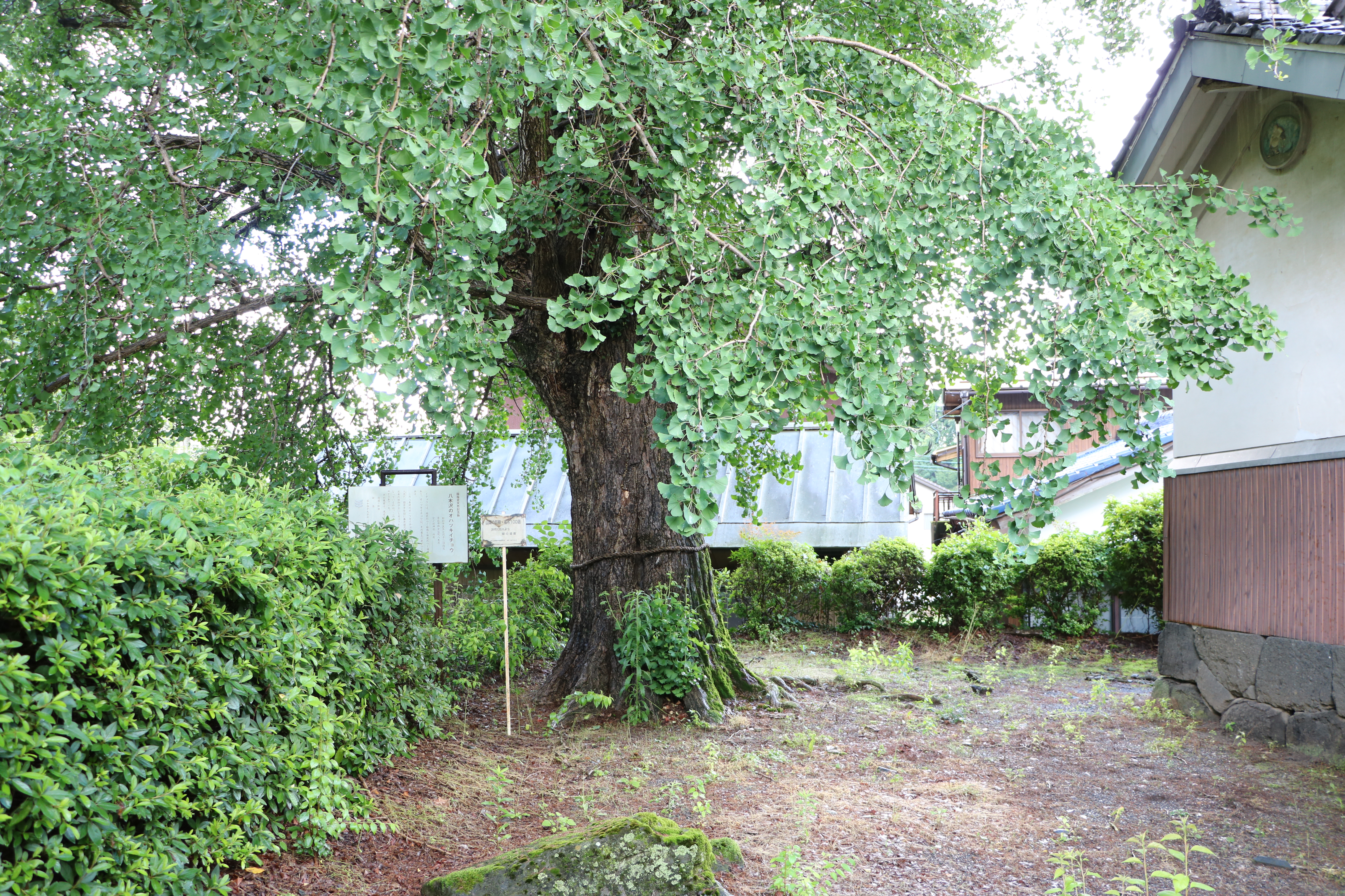 Yagisawa no Ohatsuki Icho. Ginkgo biloba natural monuments in Japan.